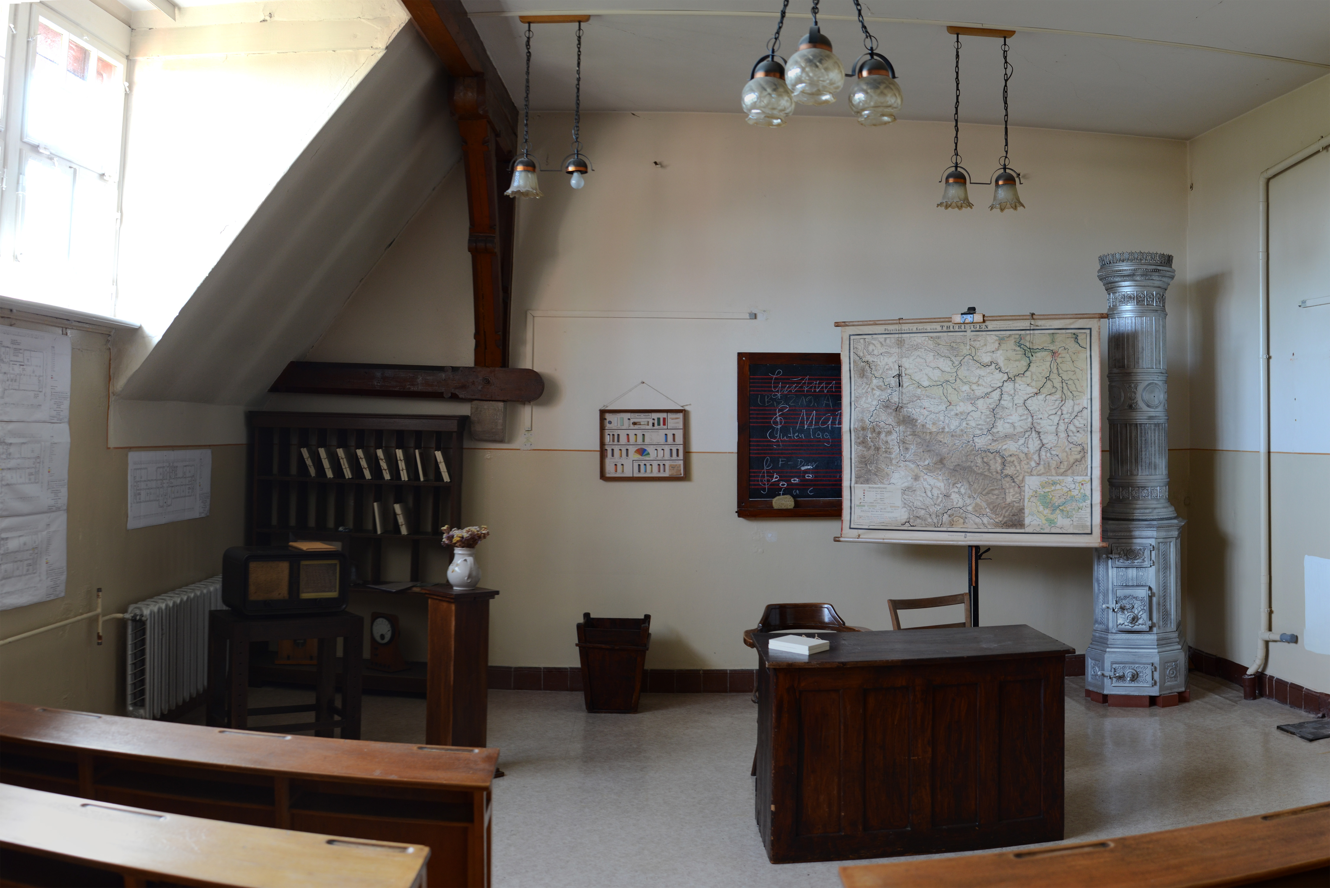 Panorama view inside of the "historical classroom" of the Friedrichgymnasium Altenburg. It is shown how children were teached decades ago - with original school desks, chemical samples and an old geographical map.